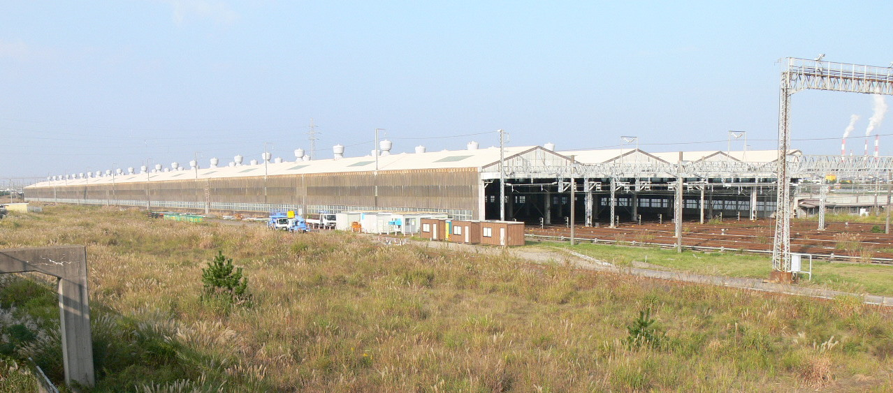 Niigata Shinkansen Train Center(Japan).